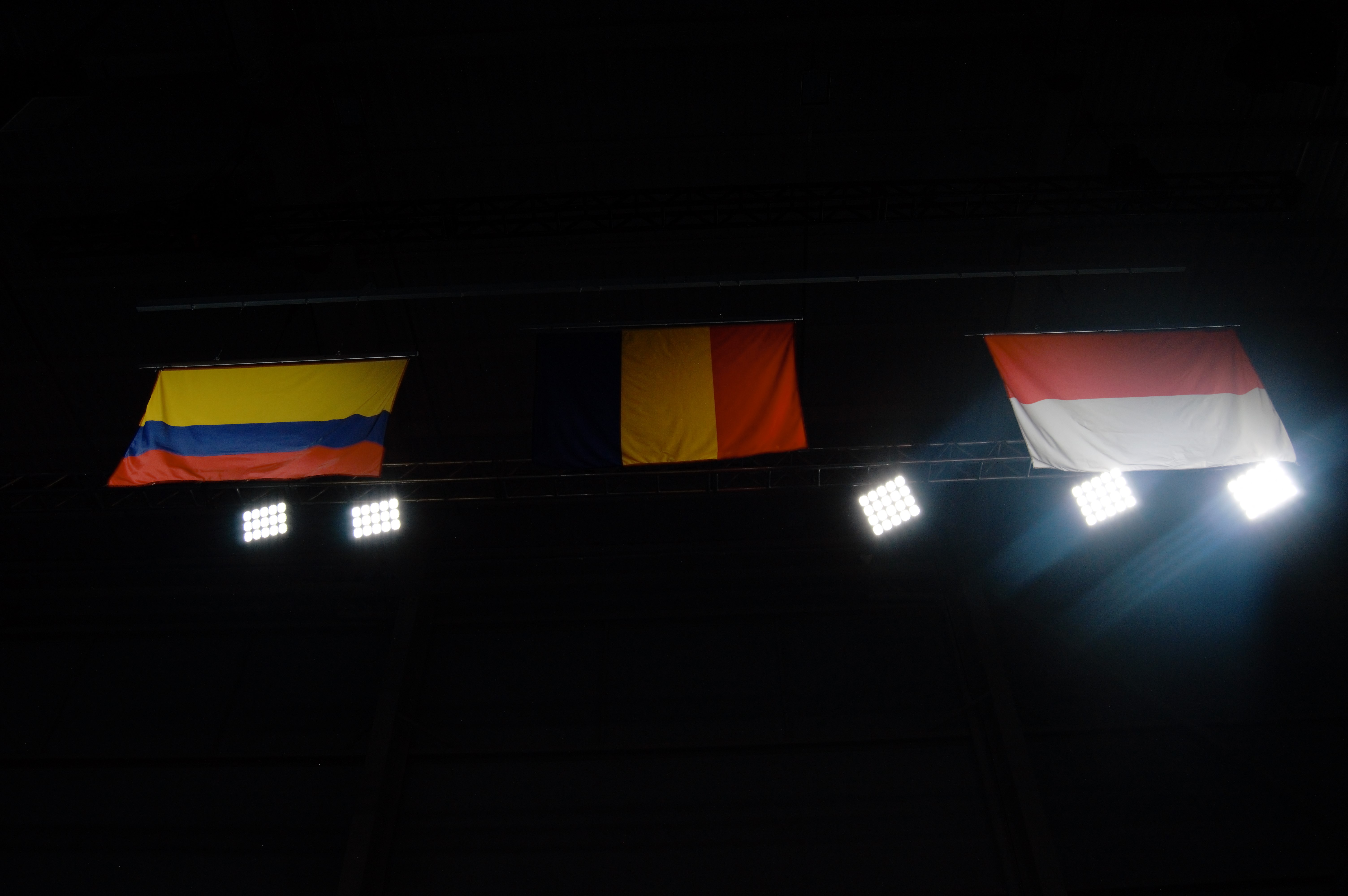 Victory ceremony of the Girls' 53kg Group A Weightlifting competition of the 2018 Summer Youth Olympics.